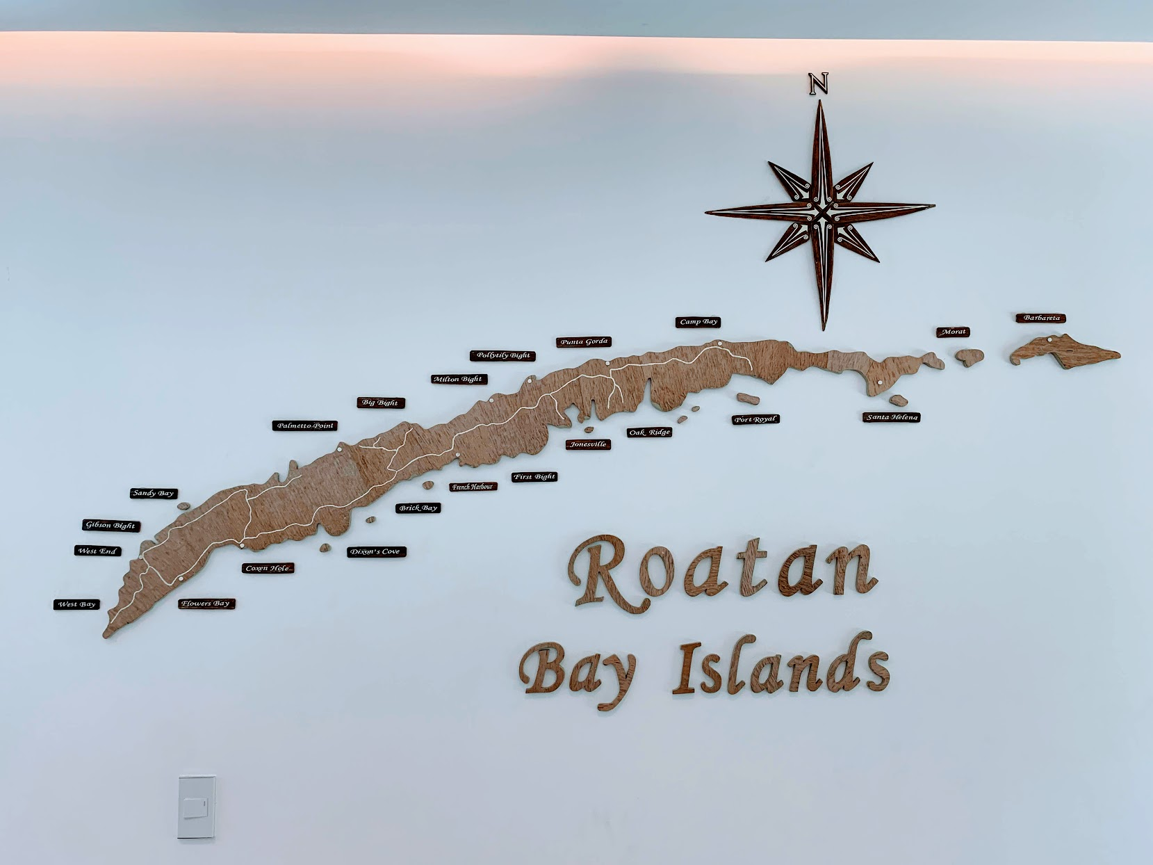 Decorative map of Roatan Bay Islands